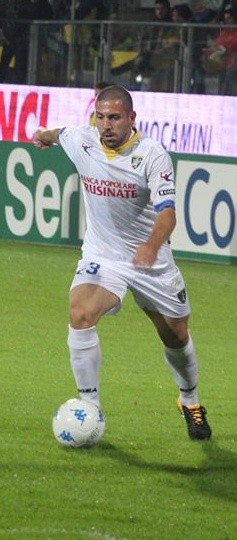 Roberto Crivello, Frosinone football player